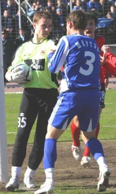 Igor Akinfeev (35) in the scuffle with Martin Škrtel (3)